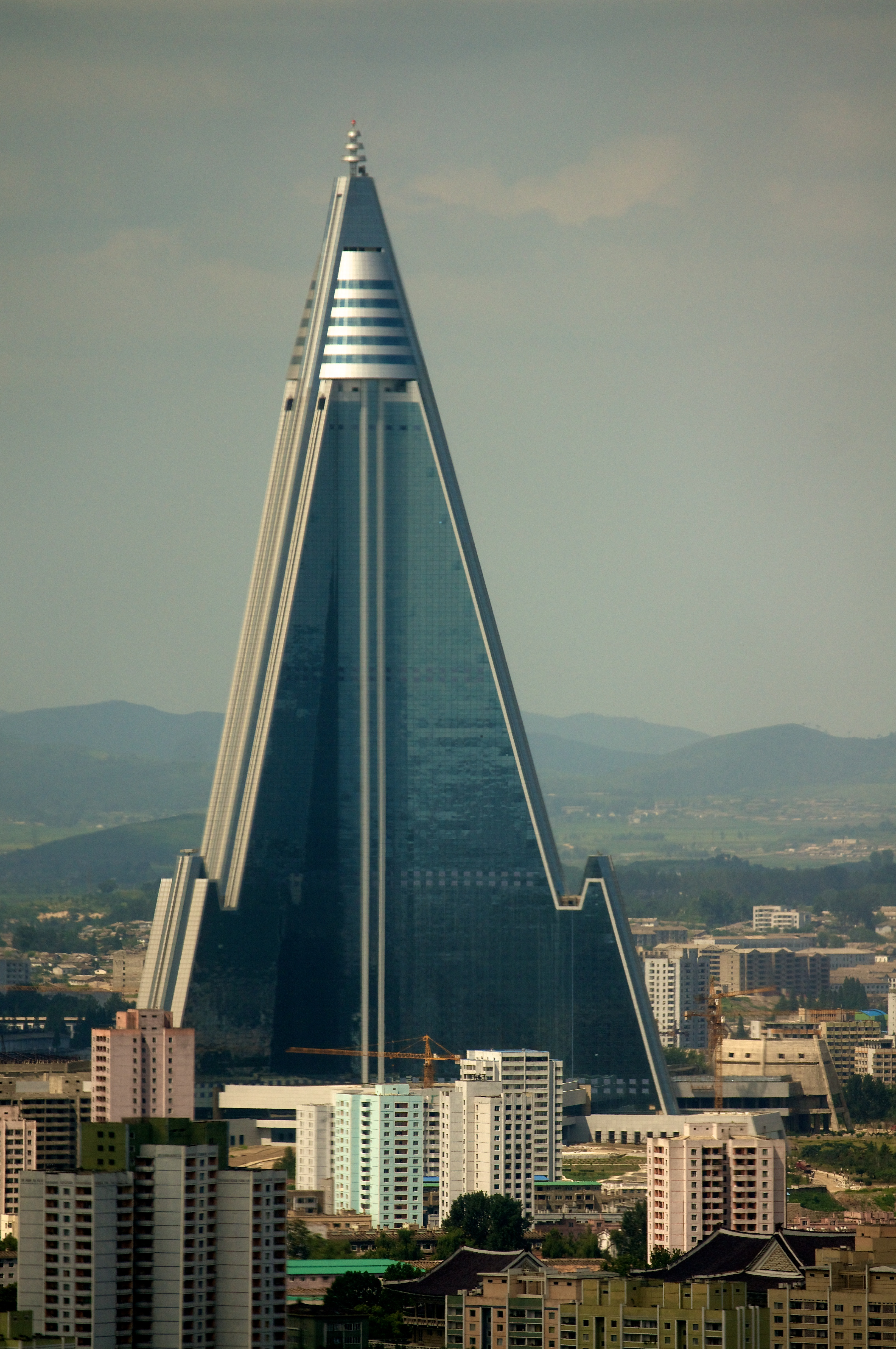 Ryugyong Hotel - August 27, 2011